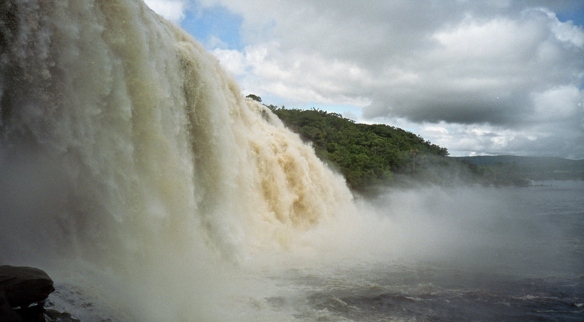 Salto Sapo from right bank